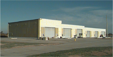 NASA Wallops Flight Facility Hazardous Processing Facility W-65